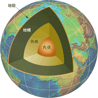 A cutaway diagram of the core of the earth from the Lawrence Livermore Laboratory.